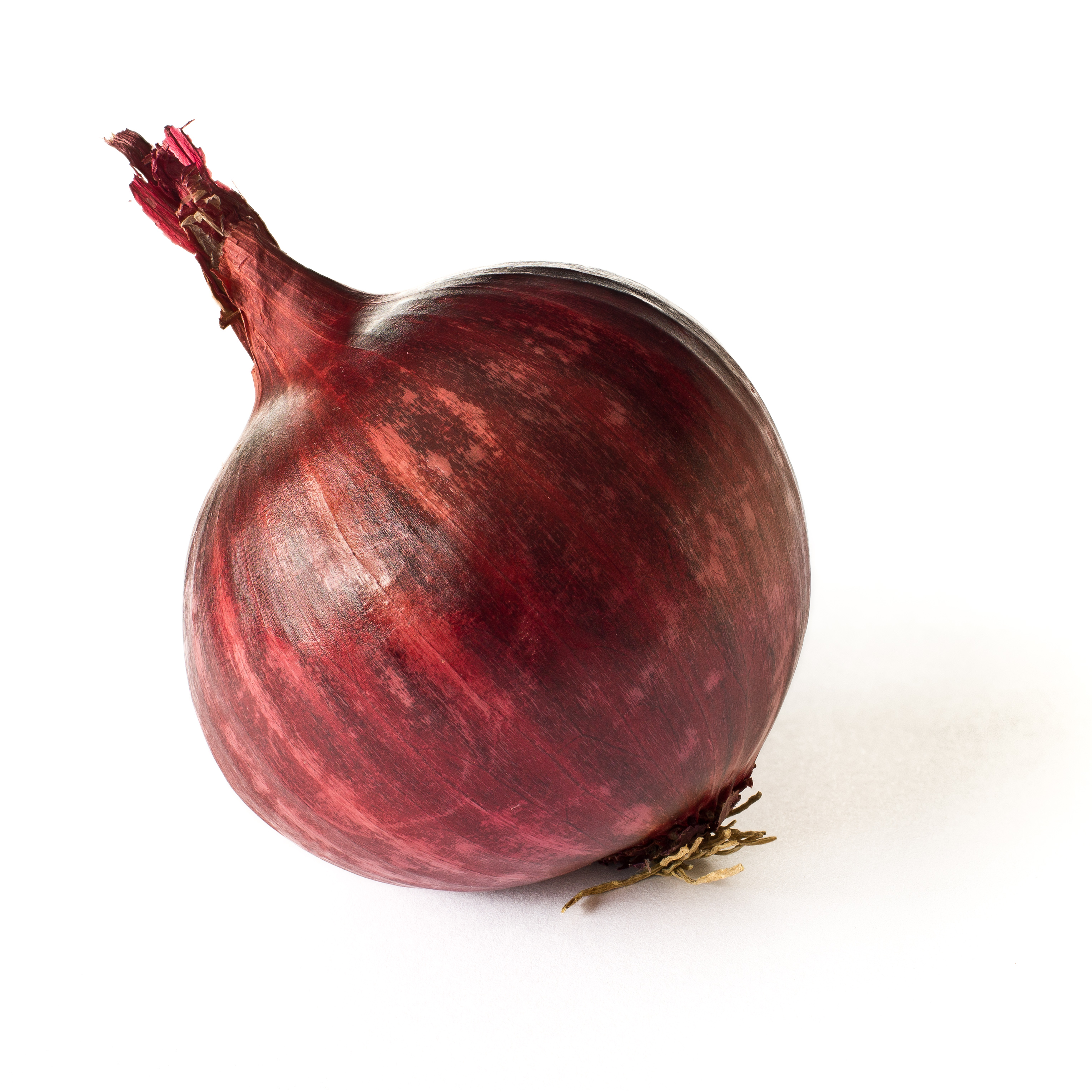 A red onion on a white background.